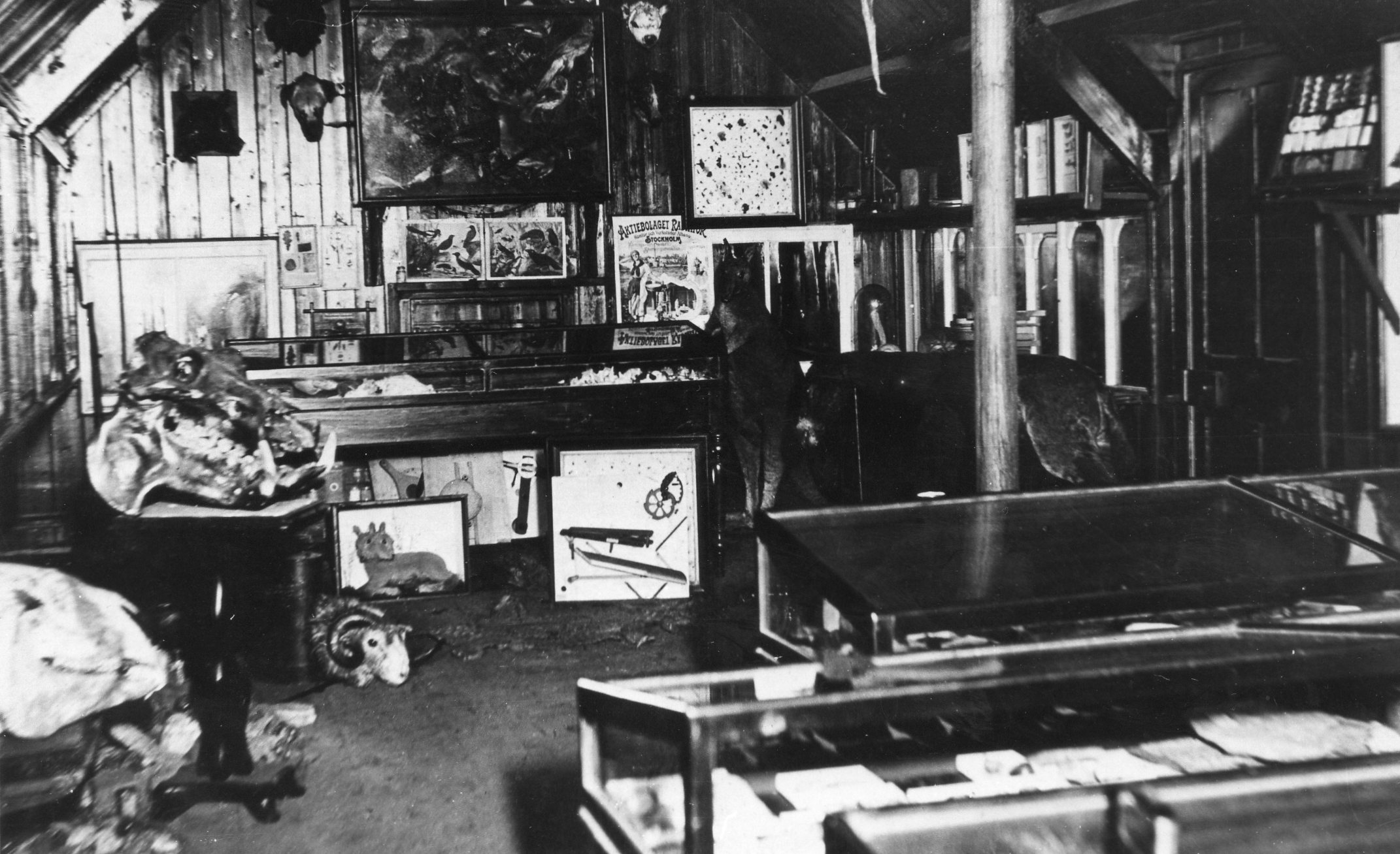 Copy of old Photo